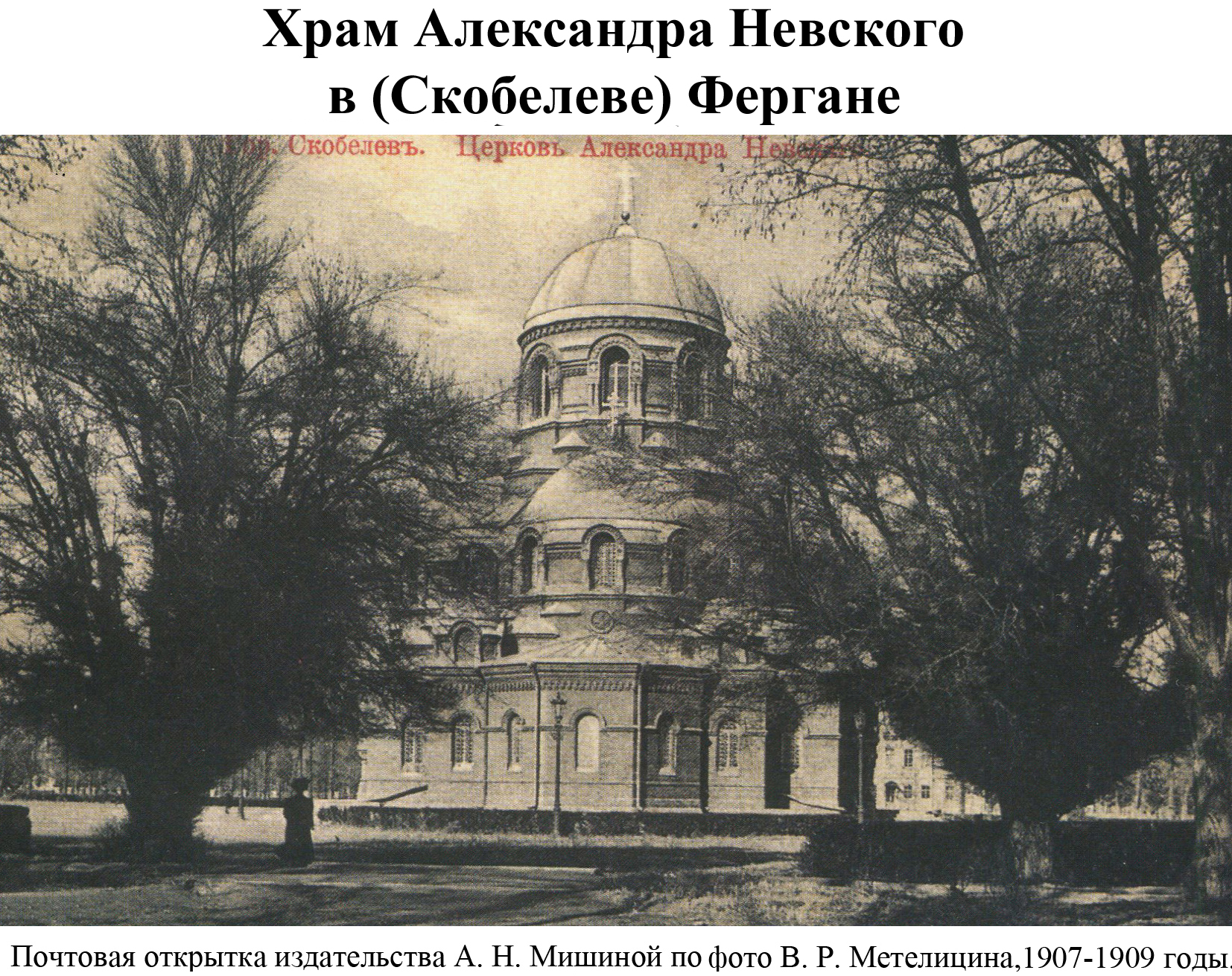 Church Alexander Nevsky in New Marghilan (now Fergana). Postal card publishers A. N. photo by Mishanoy P. L. Ioannidi. 1907-1909 years.